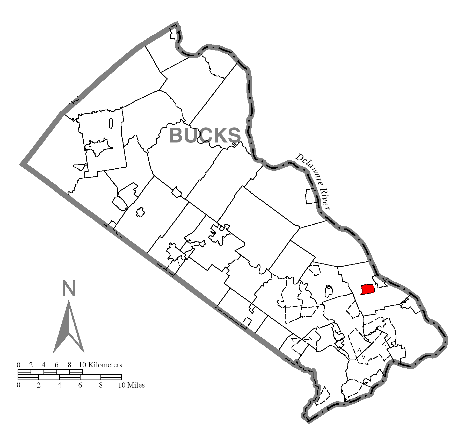 A map of Bucks County showing Woodside, Pennsylvania (alternate) highlighted on the map.